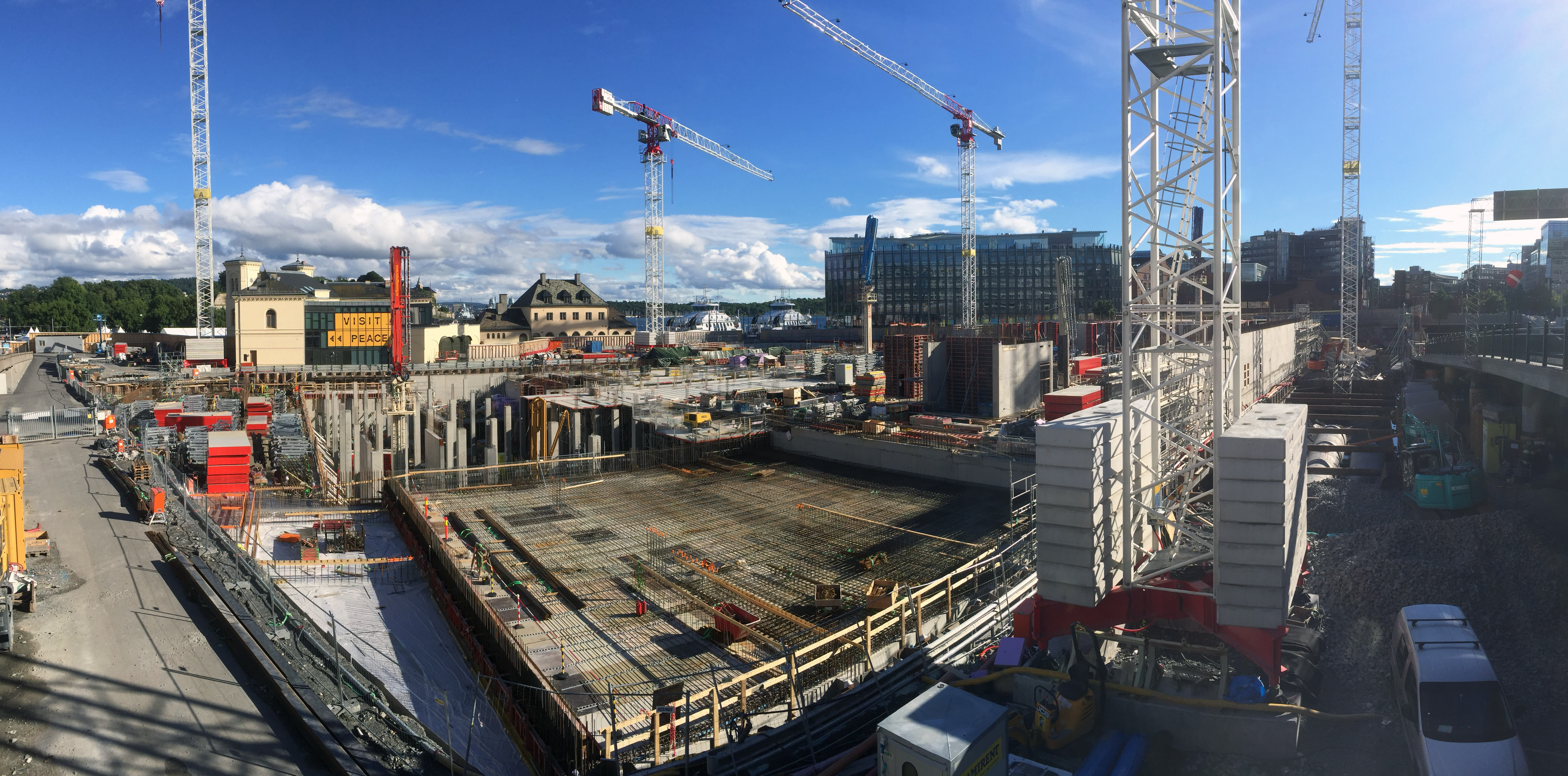 Construction site, the National Museum of Art and Design, Oslo, August 2016